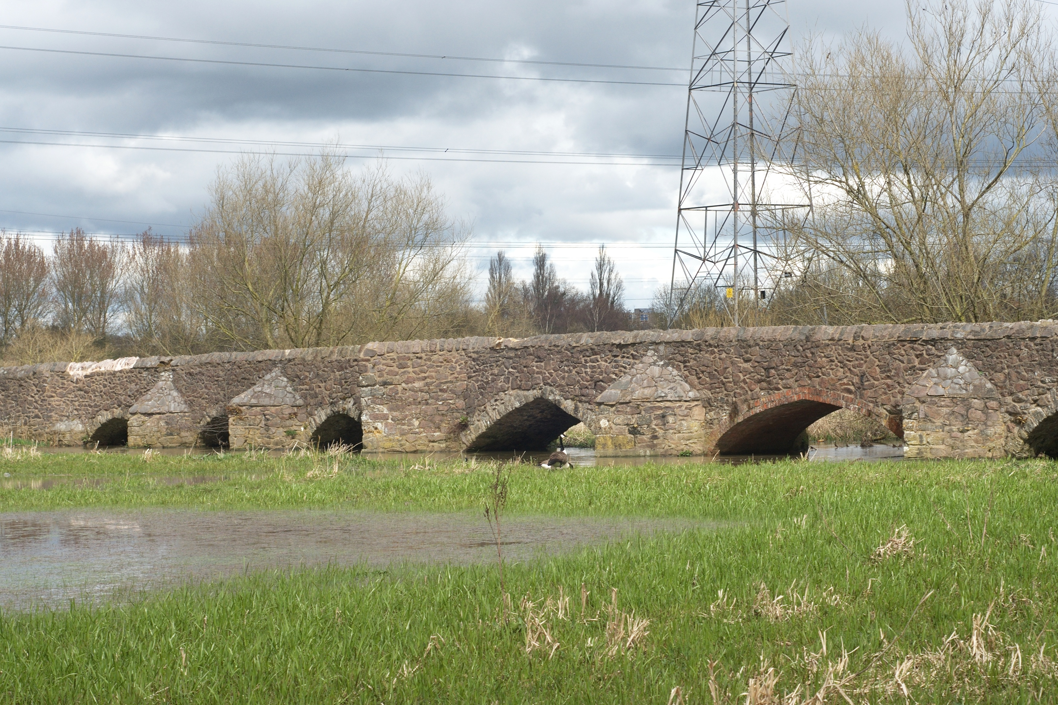 Detail of the medieval Aylestone Packhorse Bridge, a Scheduled Monument in Leicester